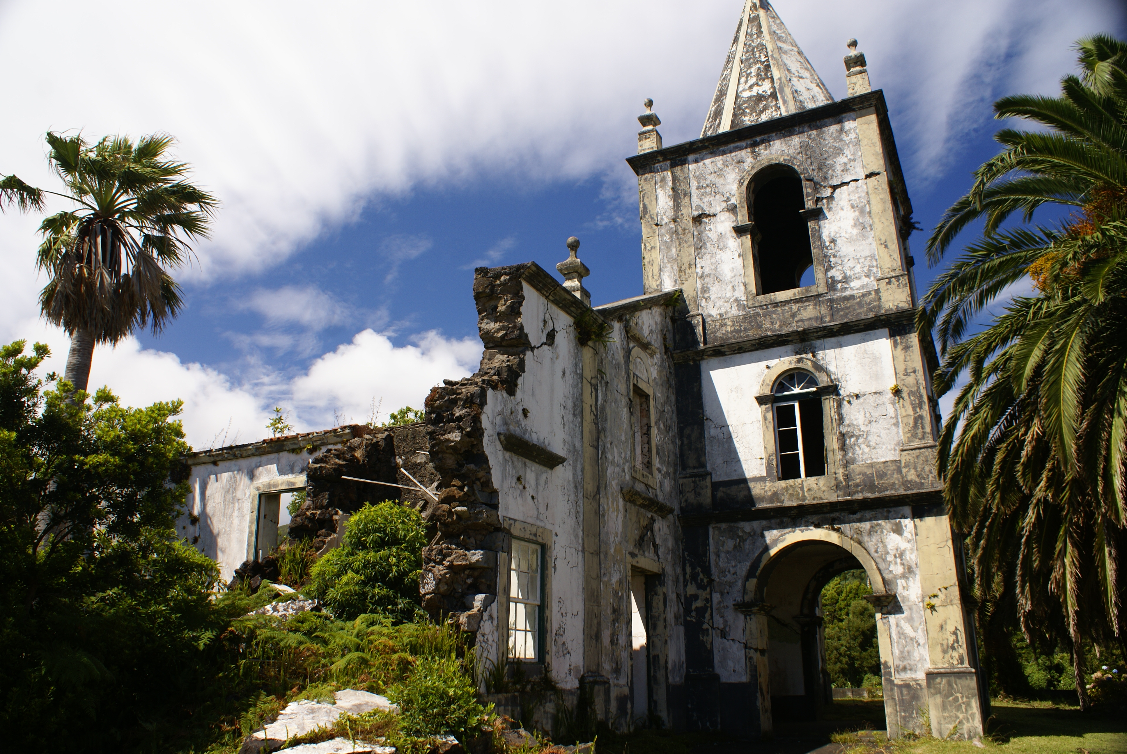 Igreja de Nossa Senhora da Ajuda, aspectos 3, Pedro Miguel, destruida pelo terramato de 1998 depois por um incêndio, concelho da Horta, ilha do Faial, Açores, Portugal